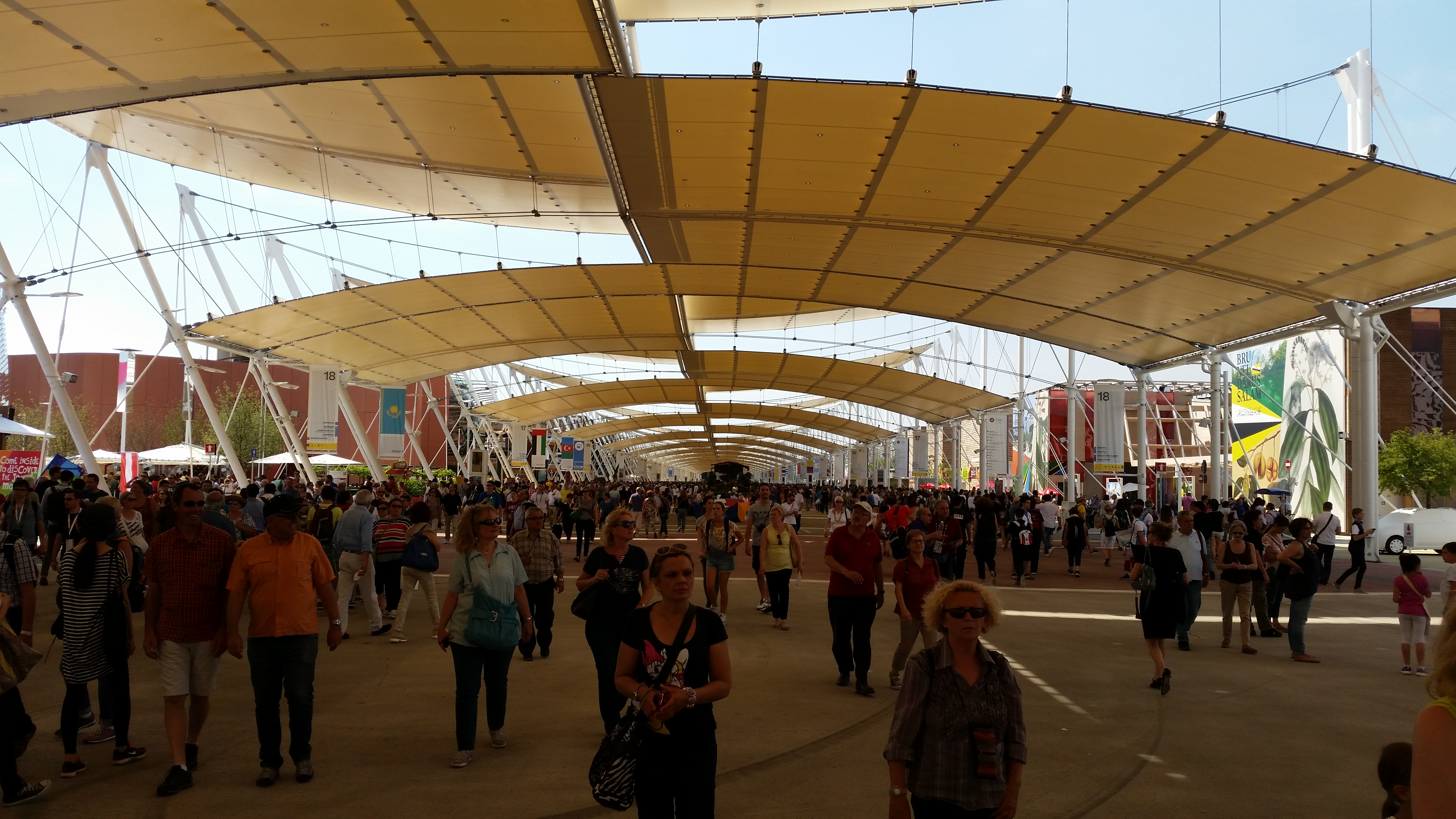 Expo2015 Milano